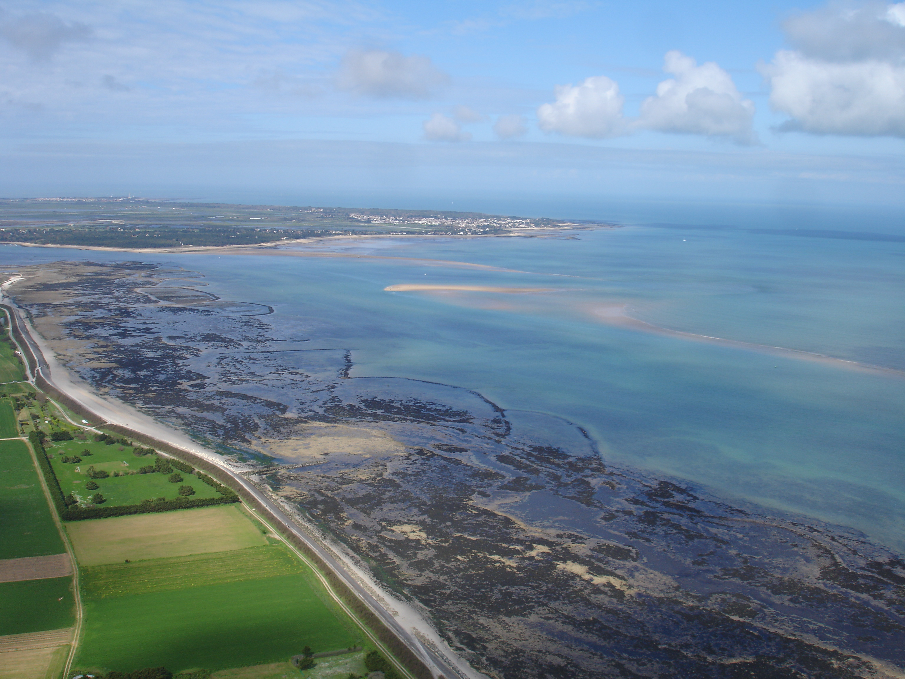 Aerial view of Trousse Chemise beach and the Bucheron sandbanck at Ile de Ré, Charentes Maritimes, France